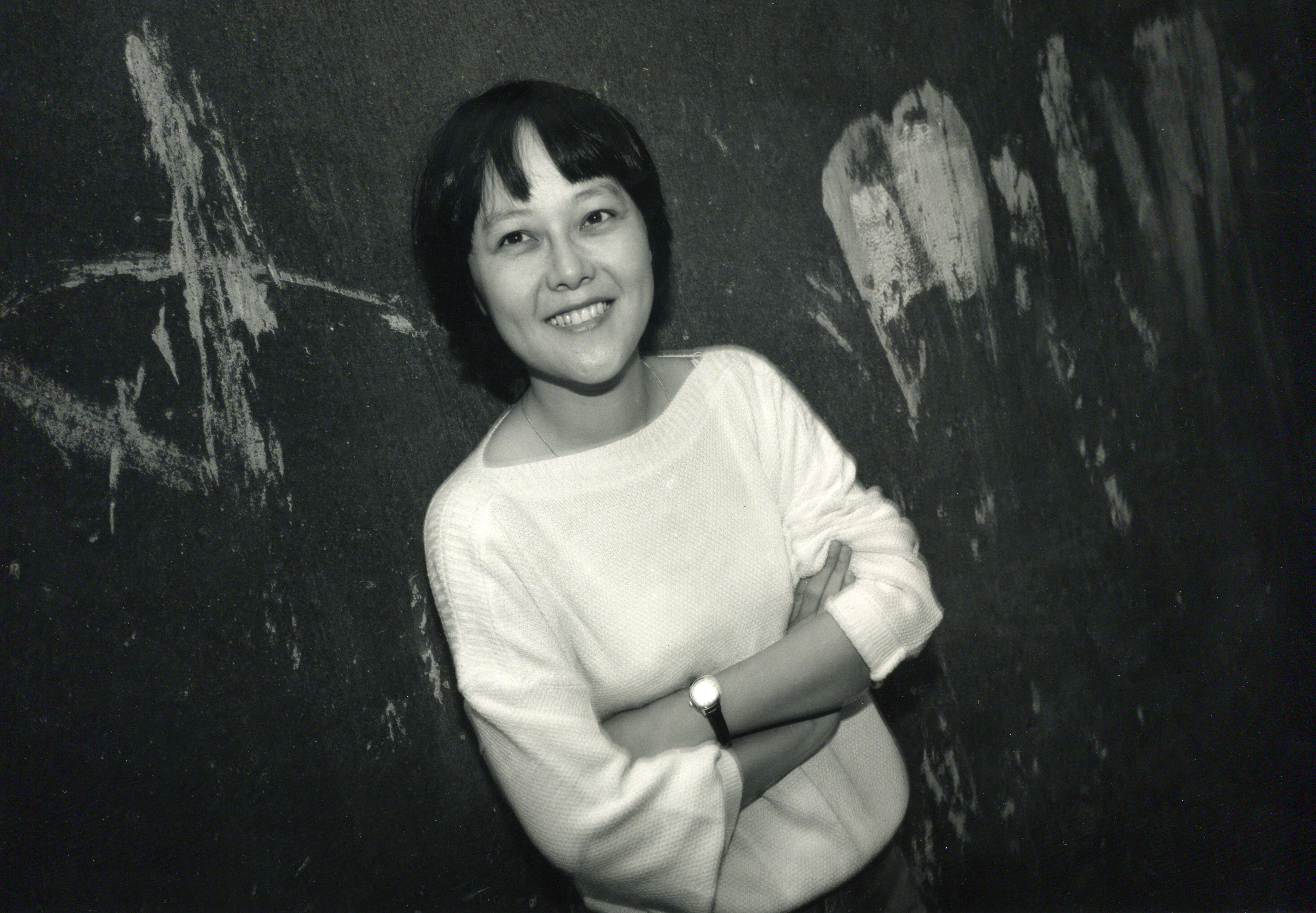 Peng Xiaolian in US in 1989